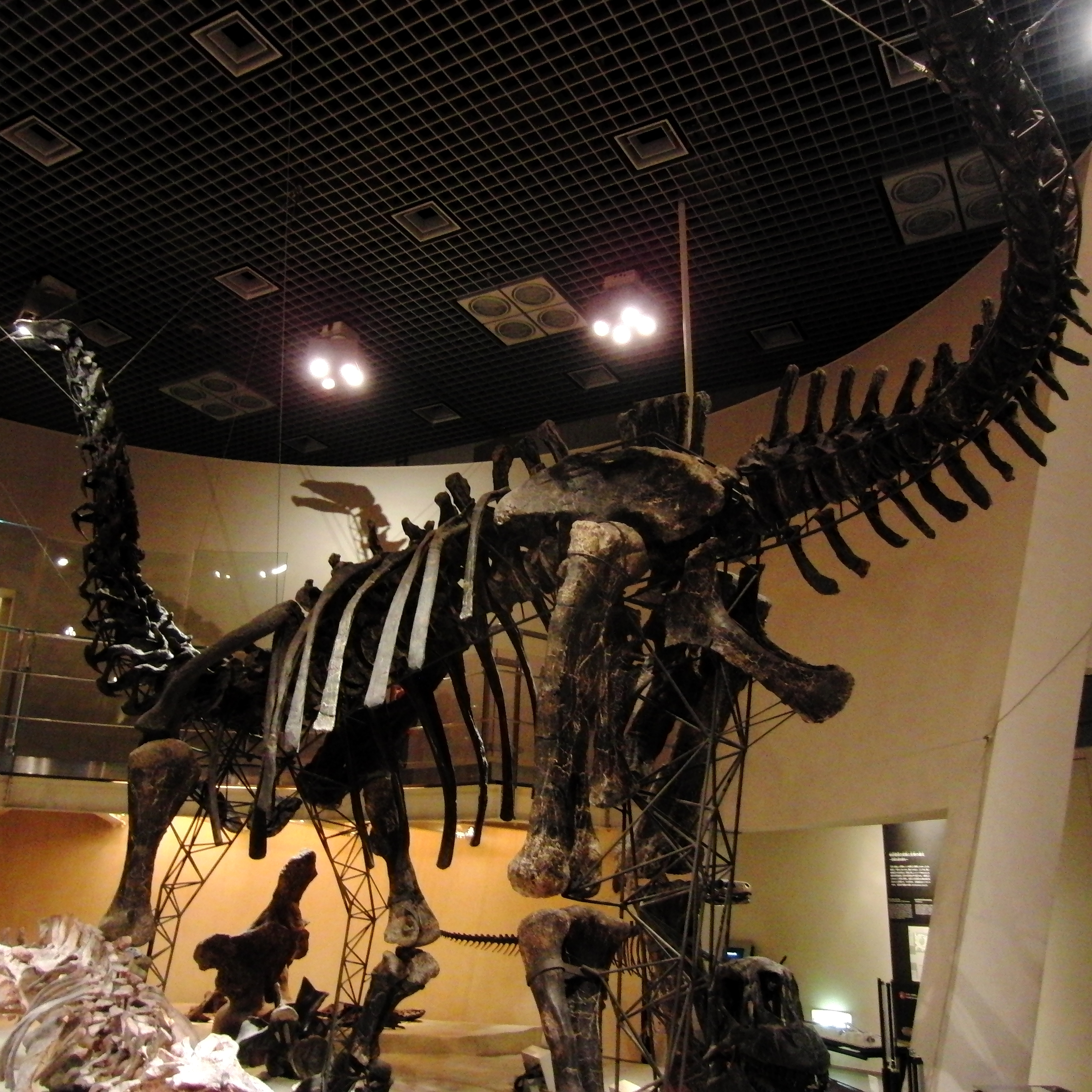 Skeleton of Apatosaurus (Apatosaurus ajax, specimen NSMT-PV 20375, possibly a new genus). Exhibit in the National Museum of Nature and Science, Tokyo, Japan.